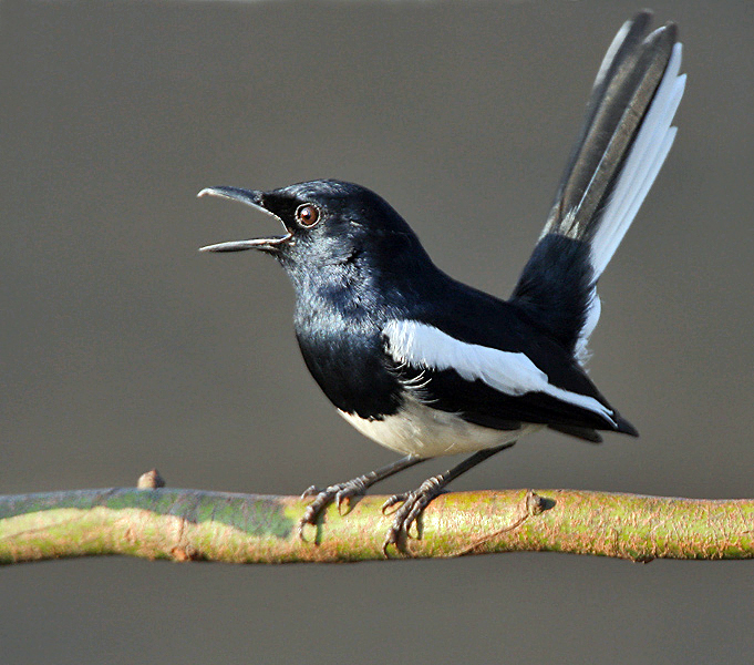 Oriental Magpie Robin (Copsychus saularis) in Kolkata, West Bengal, India.